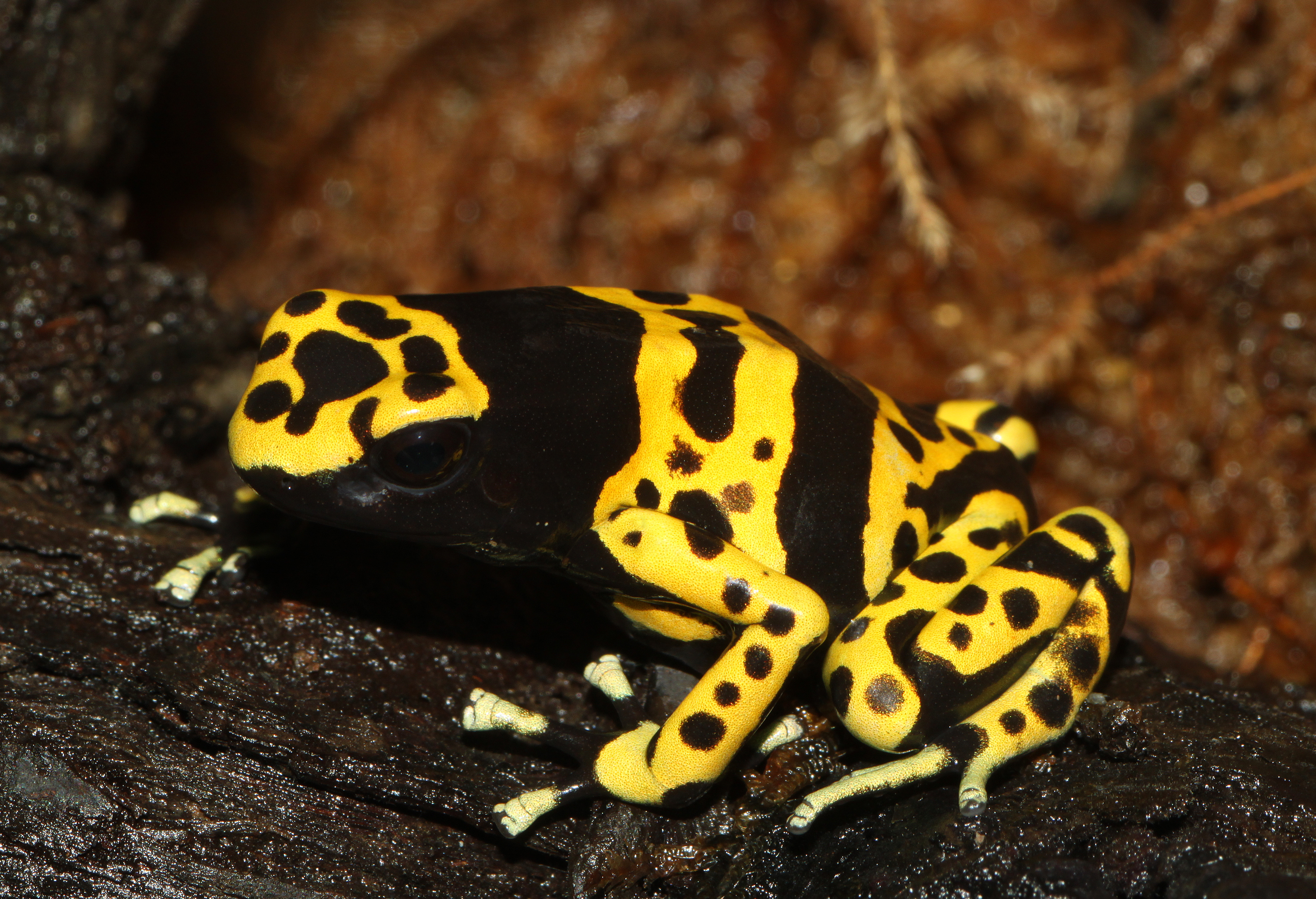 Yellow-Banded Poison Dart Frog, Yellow-Headed Poison Dart Frog or Bumblebee Poison Frog, Dendrobates leucomelas, Family: Dendrobatidae, Location: Germany, Ulm, Zoological Garden